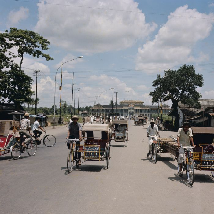 Becaks on the street in front of the Istana Maimun, the Sultan of Deli's palace